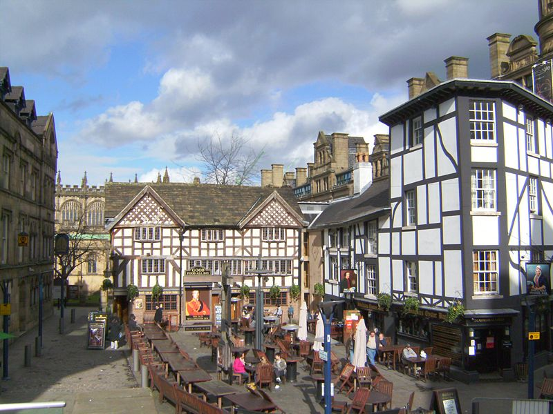 Shambles Square Manchester The old Wellington Inn is in the centre of the picture with The Mitre Hotel on the left, and Sinclair's Oyster Bar on the right. Manchester Cathedral can just be seen behind The Old Wellington, and the Manchester Corn Exchange building, which houses The Triangle shopping centre, can be seen behind Sinclair's.